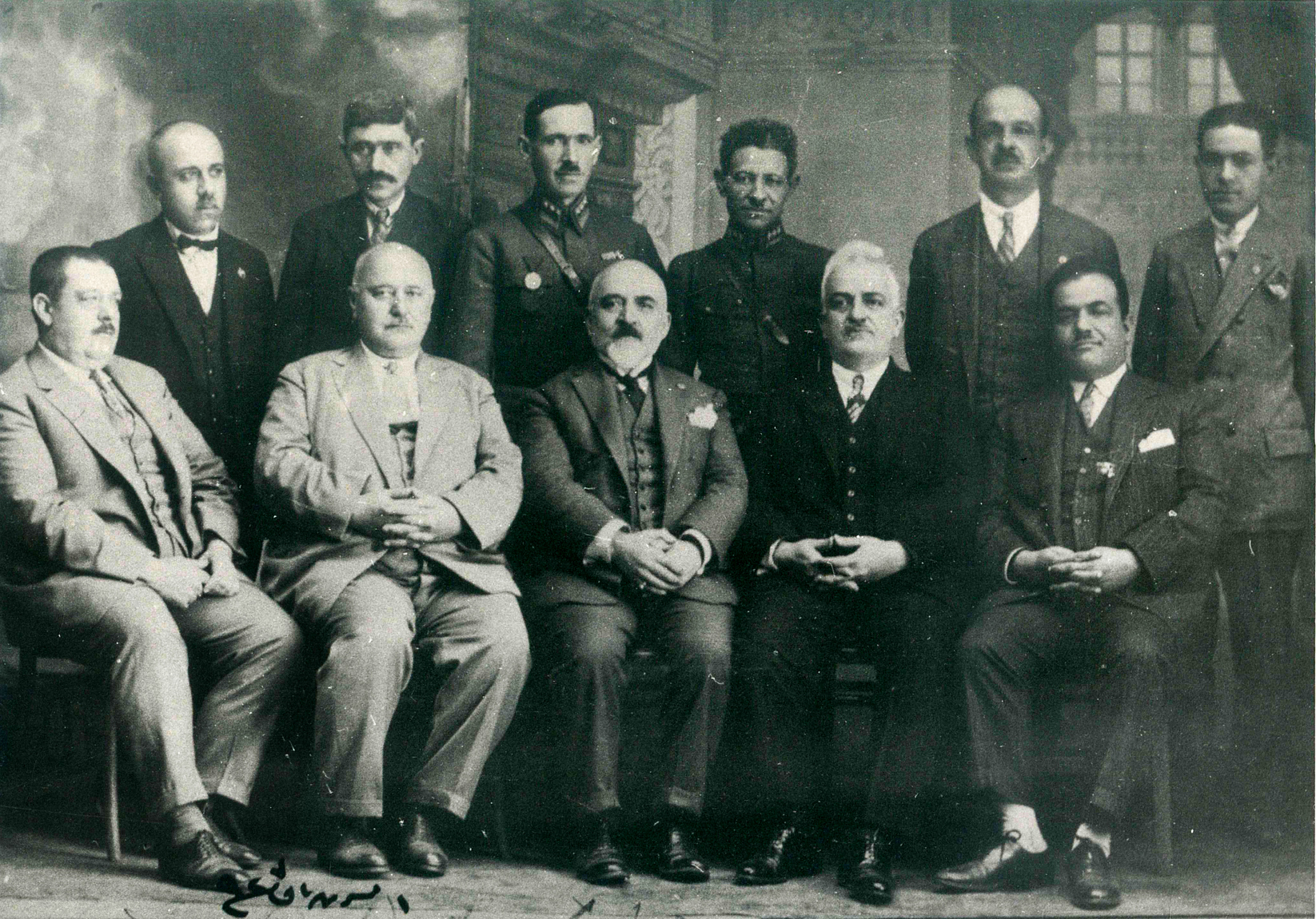 Edirne Municipality board